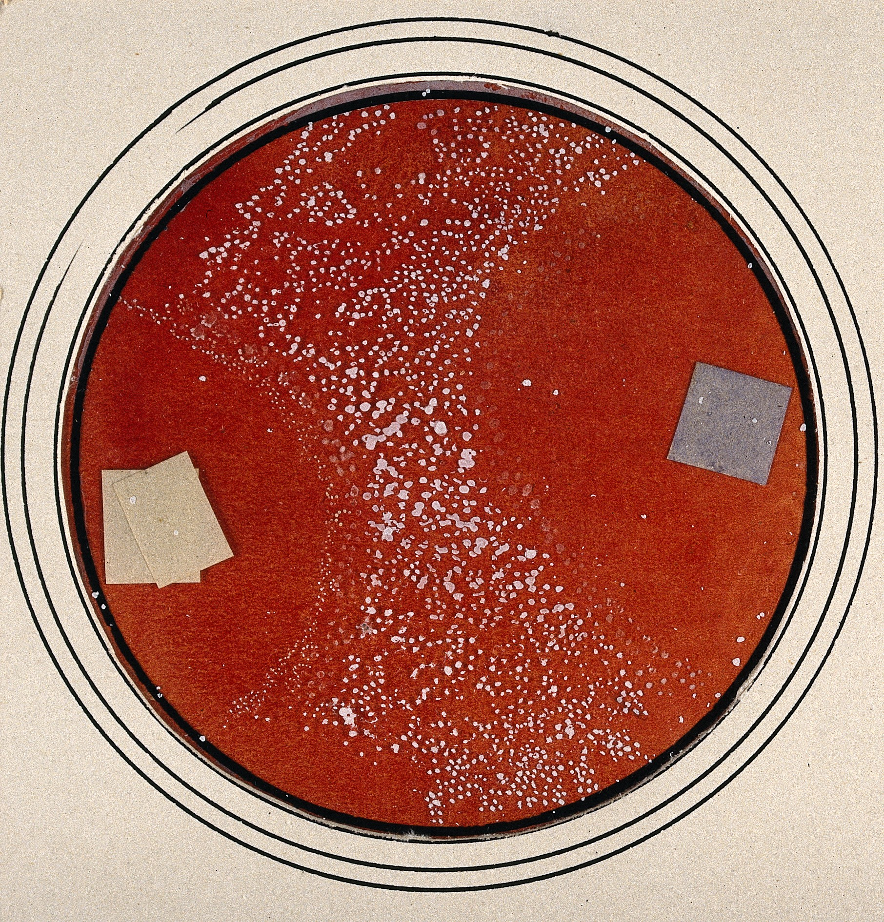 Staphylococcus aureas bacteria toxin growing on a blood agar plate. Watercolour by Barbara E. Nicholson, 1947. Iconographic Collections Keywords: Norman Murdoch Matheson; Barbara E. Nicholson